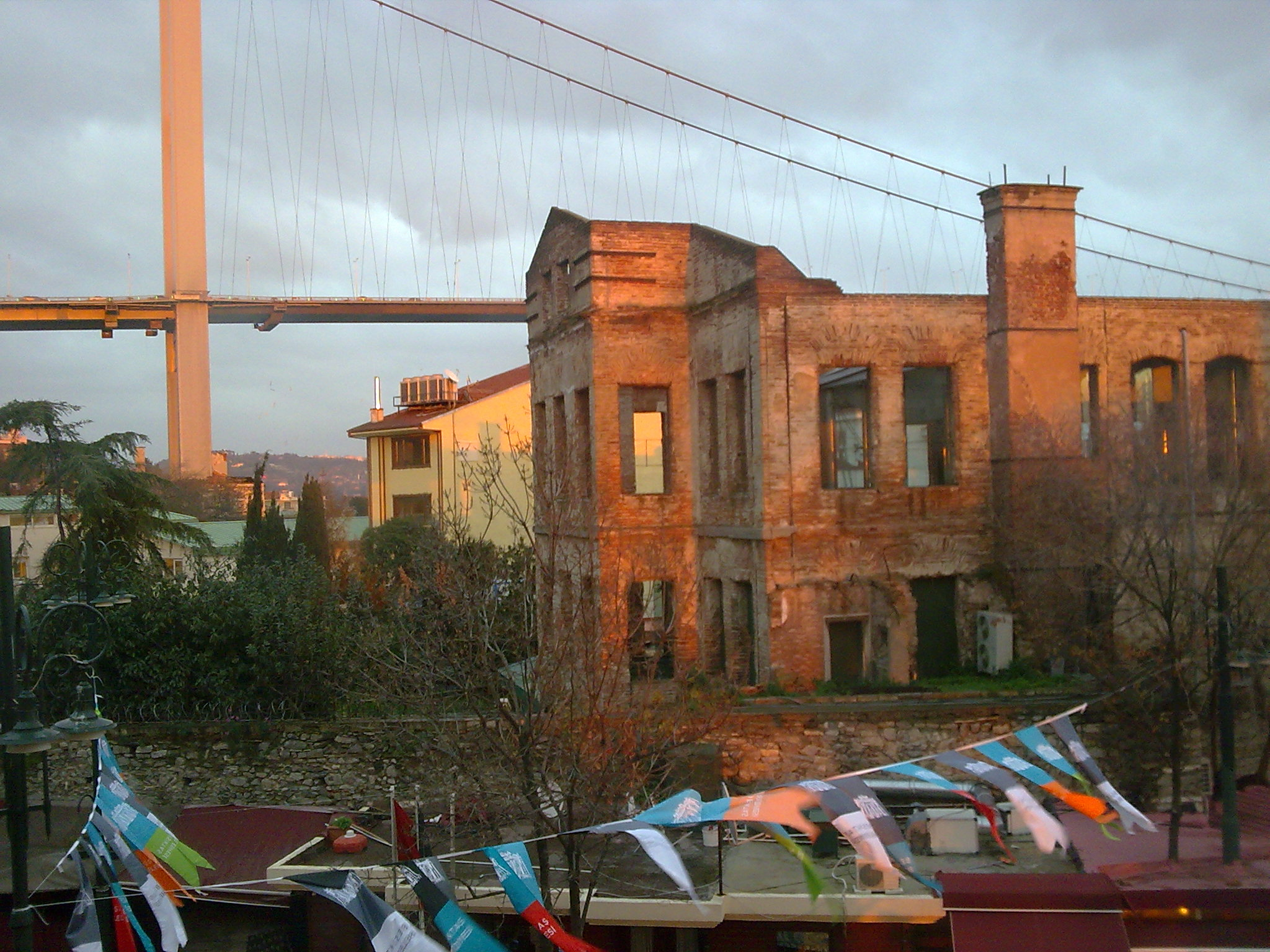 Self made dec. 2008.